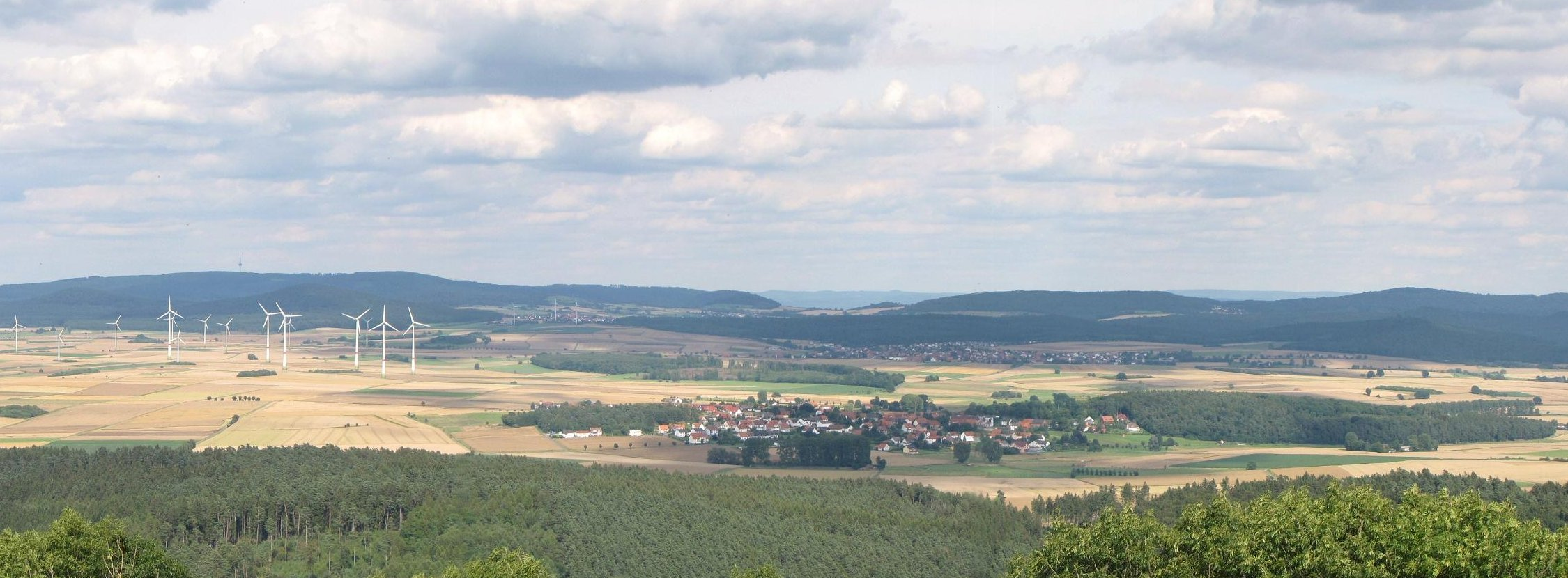 Germany / north hesse: pass "hoofer pforte" seen from the weidelsburg